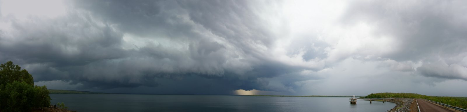 Build-up storms over Darwin River Dam, which is the main dam that supplys the Top End city of Darwin, Northern Territory